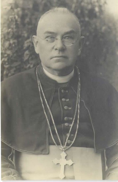 Frančišek Borgia Sedej (1854-1931), Slovenian archbishop of the Goriška region